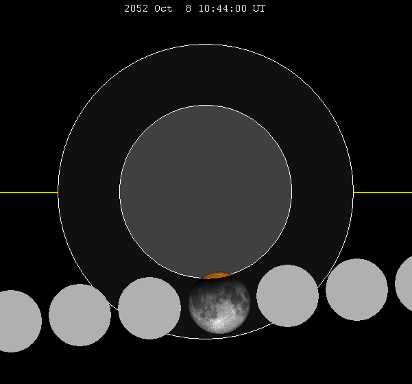 October 2052 lunar eclipse chart of moon's path through the earth's shadow. thumb